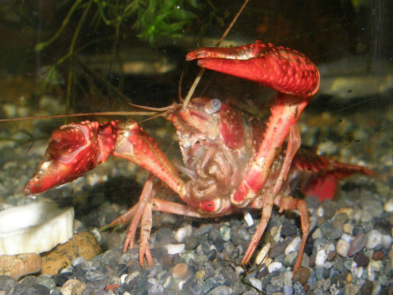 Procambarus clarkii9284477アメリカザリガニ